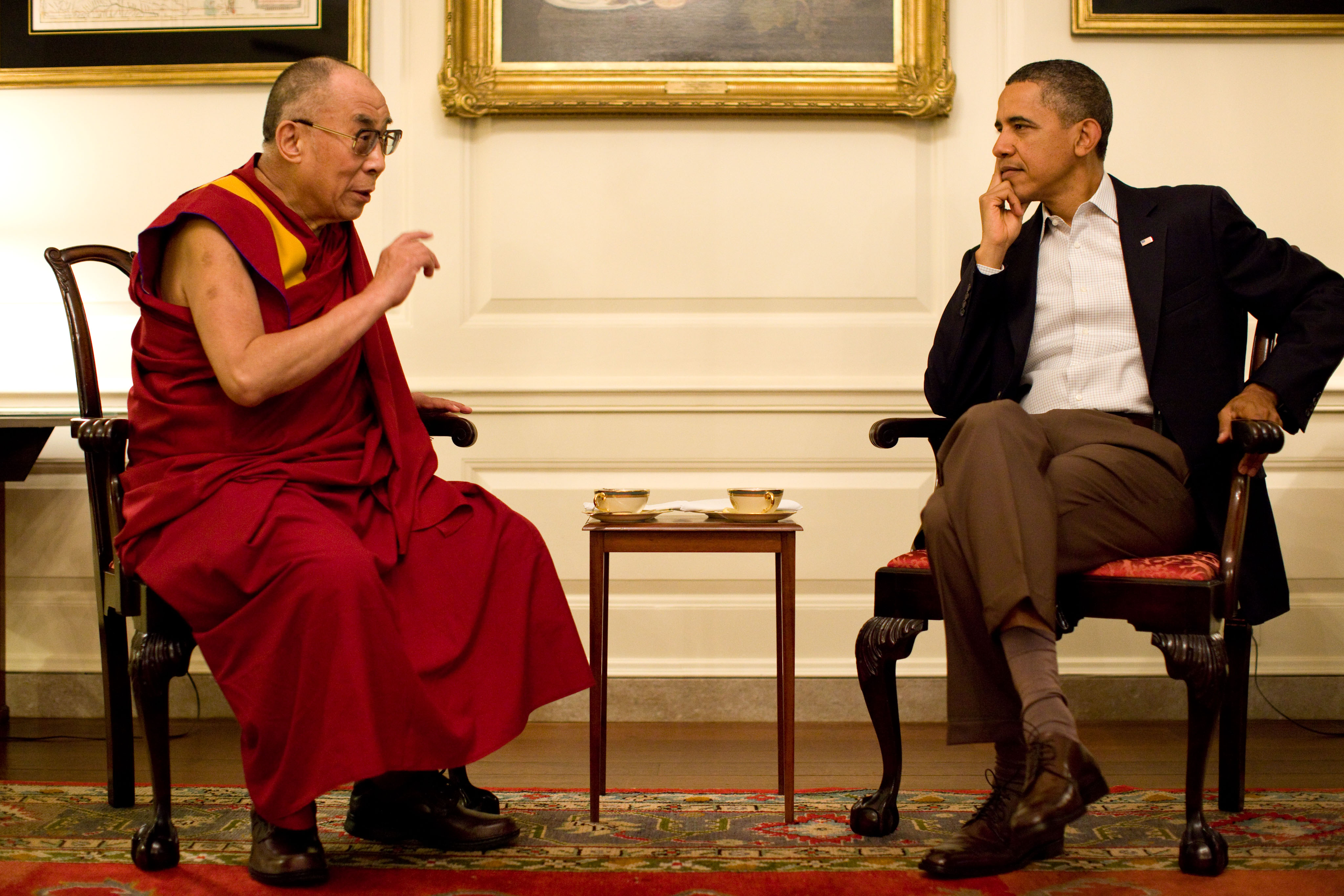 United States President Barack Obama meets with the 14th Dalai Lama in the Map Room of the White House on Saturday, 16 July 2011.